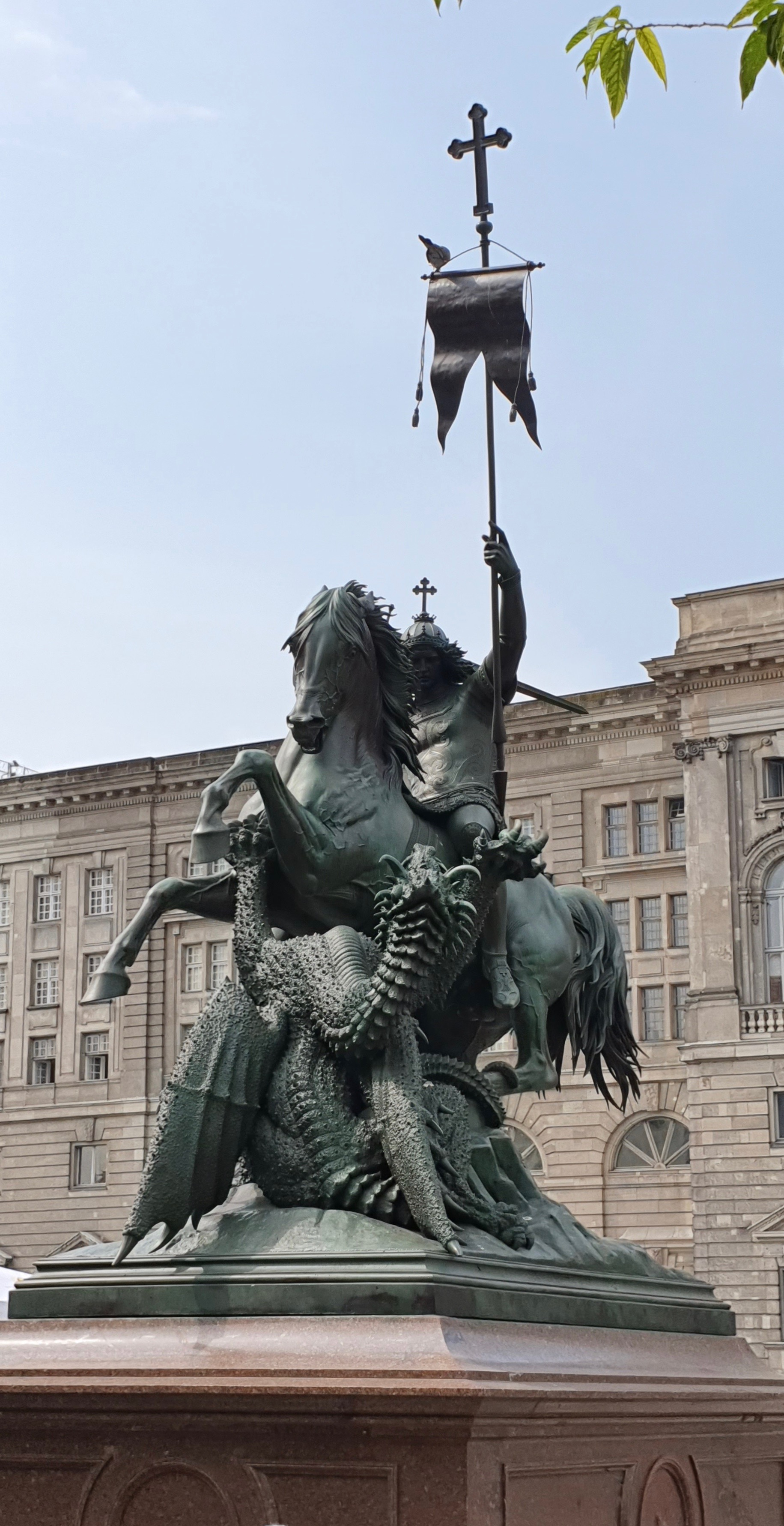 St. George and the Dragon by August Kiss at Spreeufer (Berlin-Mitte)